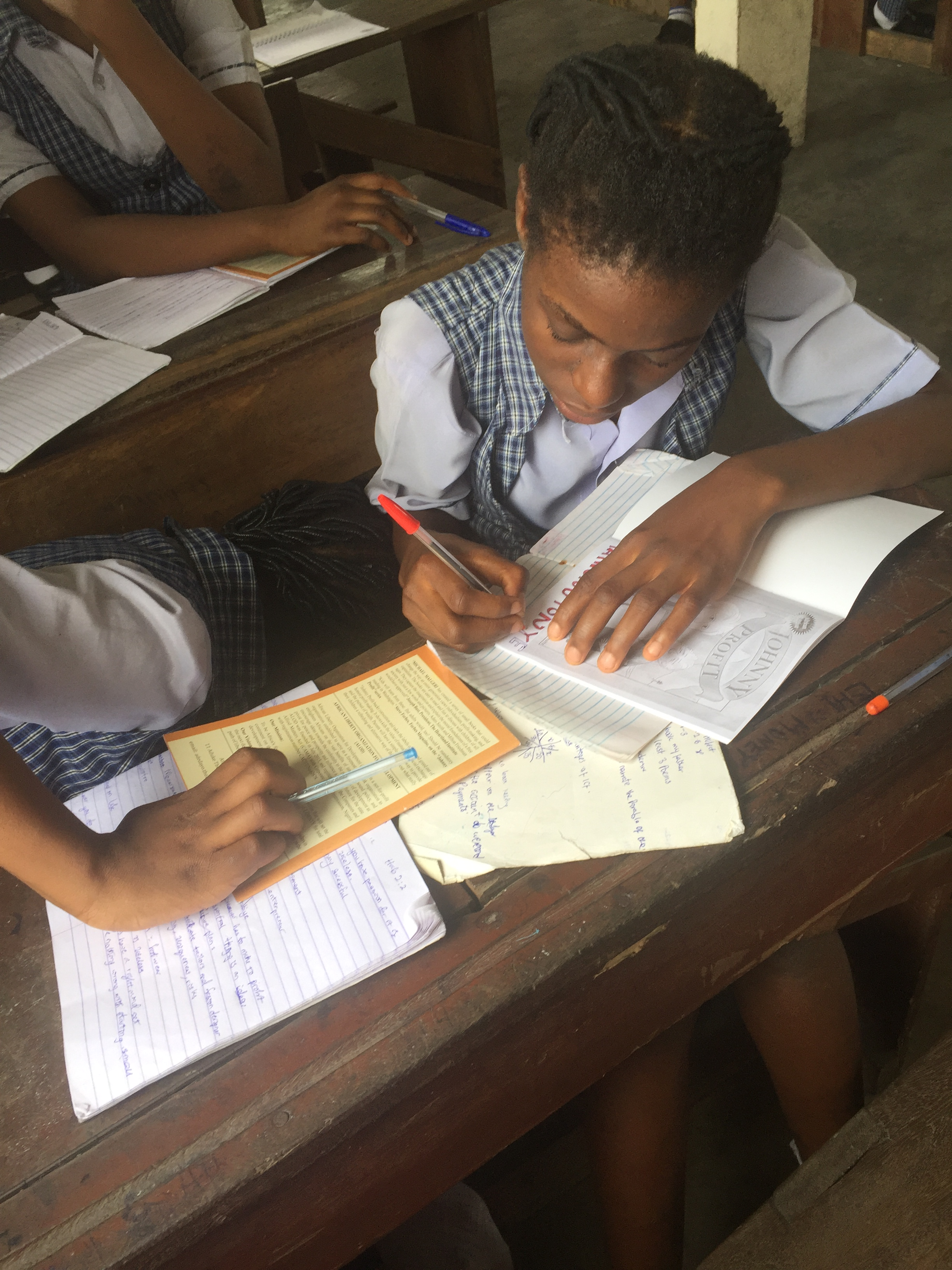 African Girl seriously studying in Nigeria This is an image of "African people at work" from Nigeria